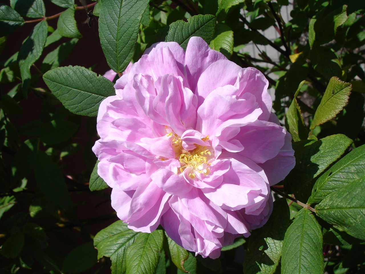 Rosa 'Therese Bugnet'